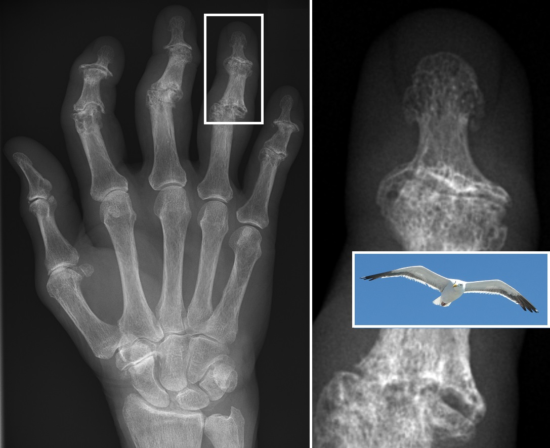 X-ray of the hand of a 76-year old female farmer. There were no symptoms or blood tests indicating rheumatoid arthritis or gout, conferring a diagnosis of osteoarthritis. The X-ray shows a gull-wing appearance of involved joints, thus being erosive osteoarthritis.